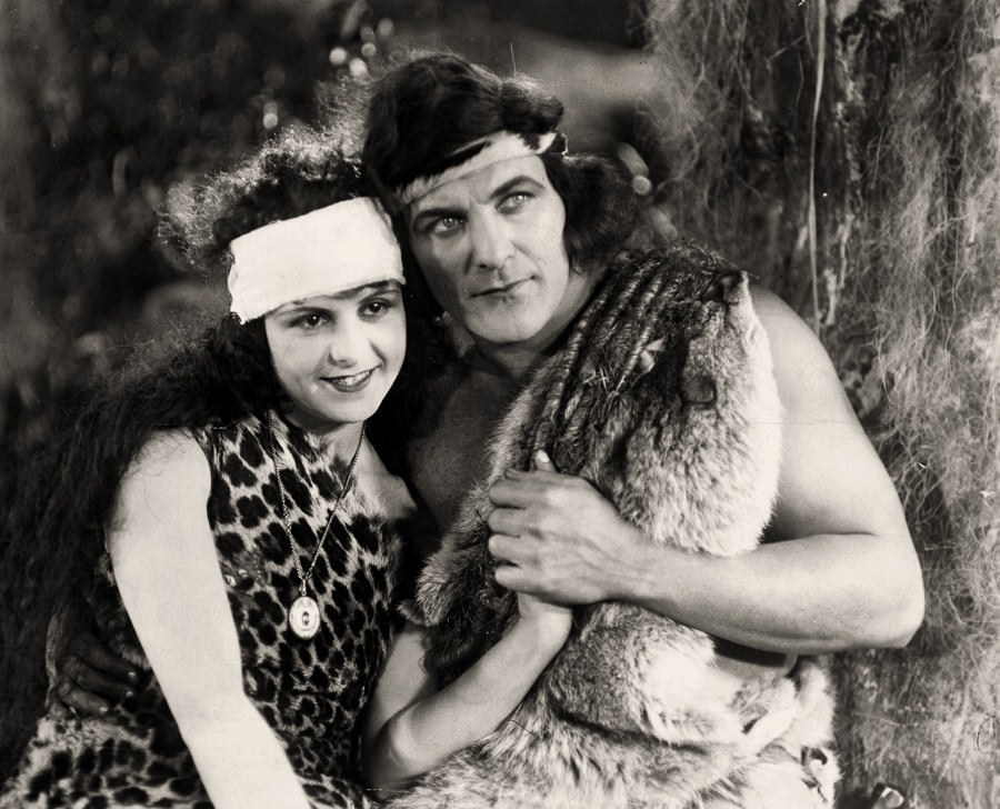 Enid Markey ("Jane") and Elmo Lincoln ("Tarzan") in the American adventure film The Romance of Tarzan (1918) - cropped screenshot